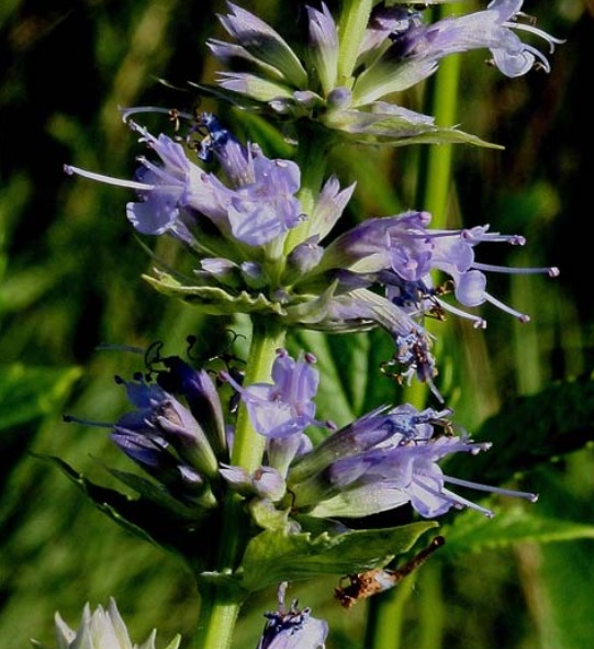 Agastache scrophulariifolia